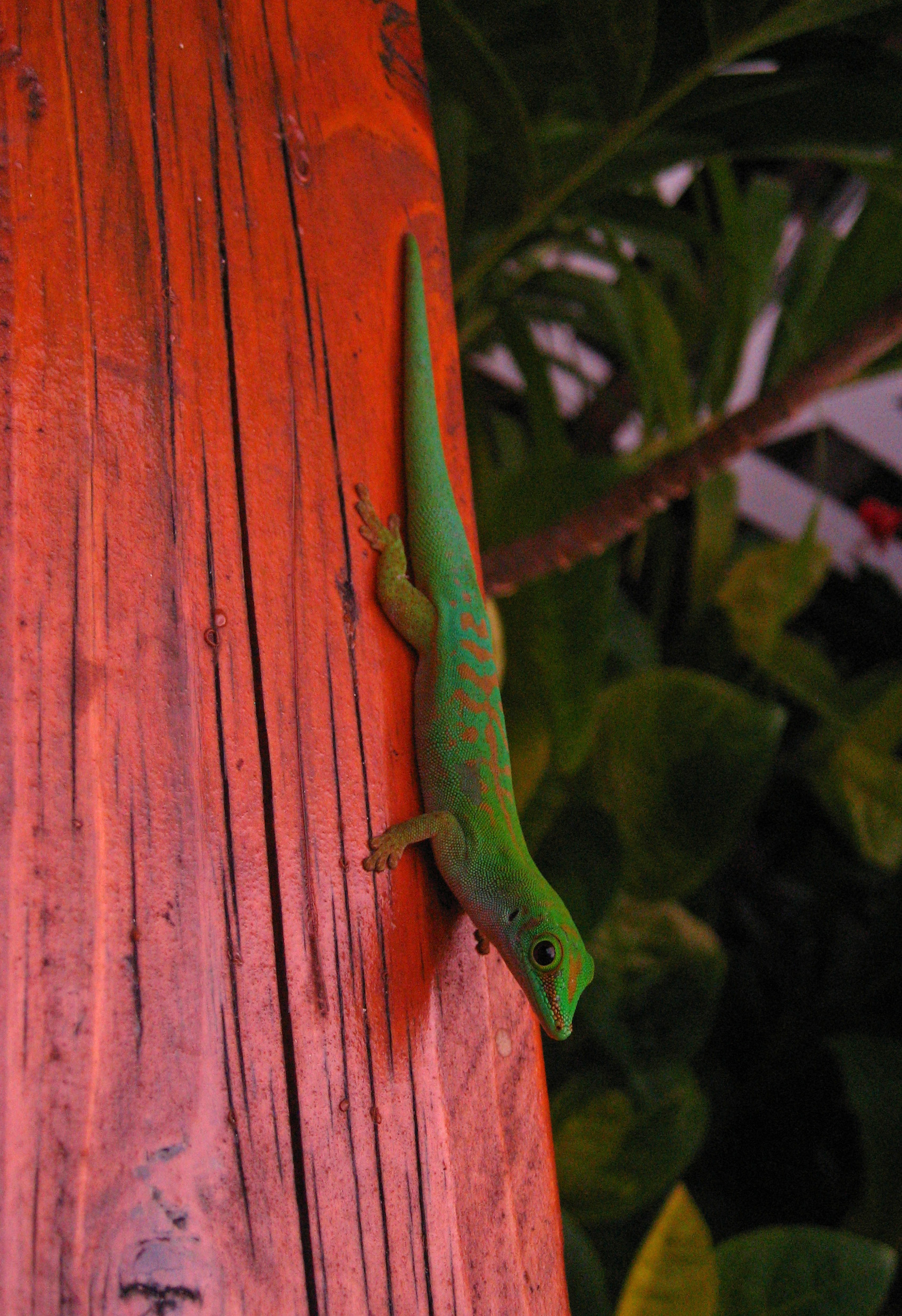 Phelsuma astriata (Seychelles small day gecko) on Praslin, Seychelles